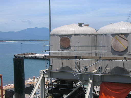 Pressure vessels in a structure in Vietnam destined for a mining plant in Australia. Designed to ASME VIII Div 1.